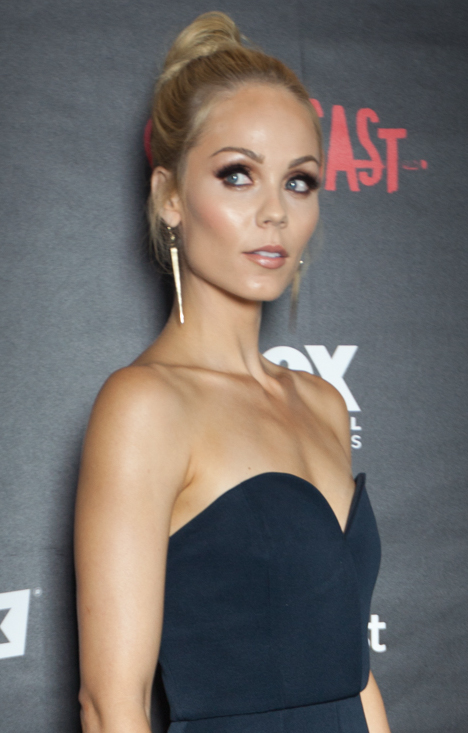 Outkast Red Carpet